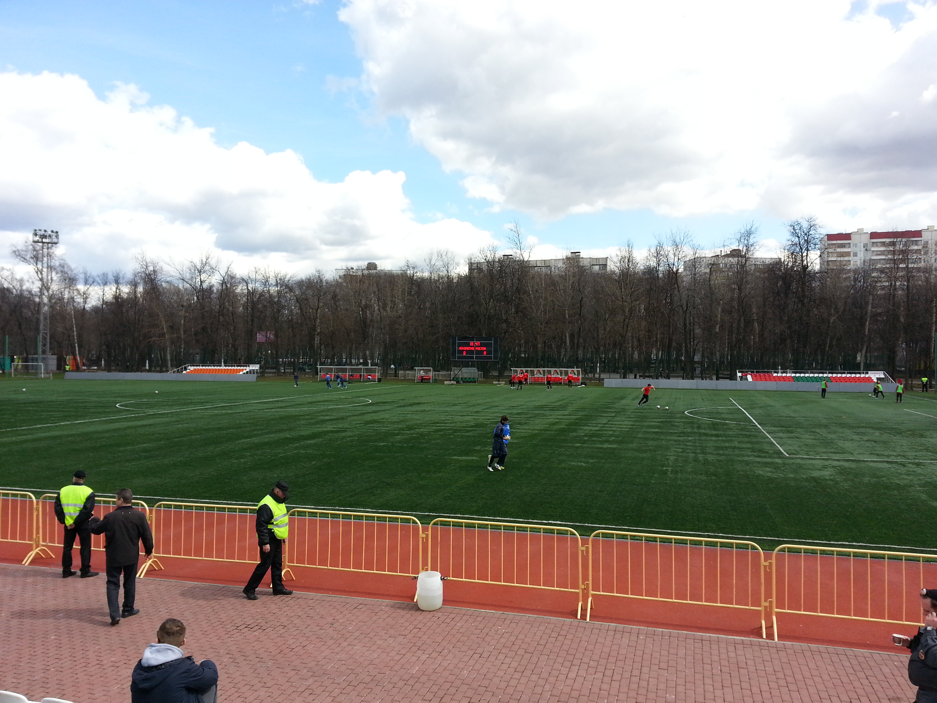 Lokomotiv-Perovo stadium. View from the west stand.